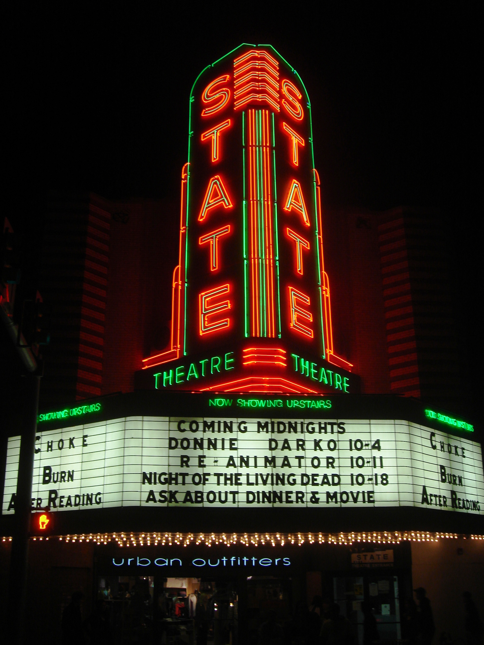 State Theatre Marquee, Ann Arbor